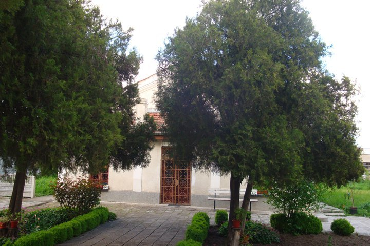 Храм "Св. Георги Победоносец"